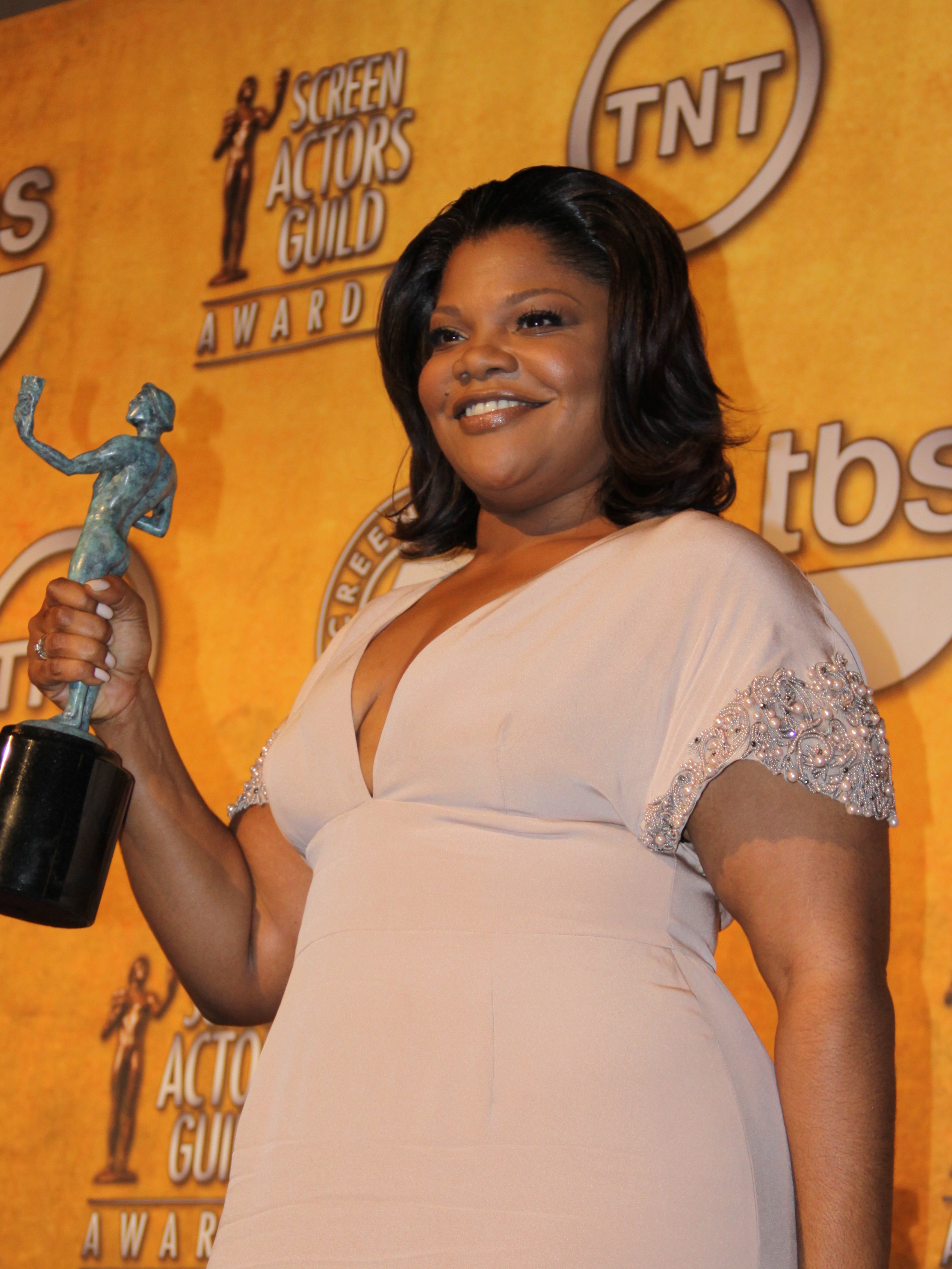 Mo'Nique, winner of the 2010 SAG award for Outstanding Performance by a Female Actor in a Supporting Role as Mary in the film "Precious